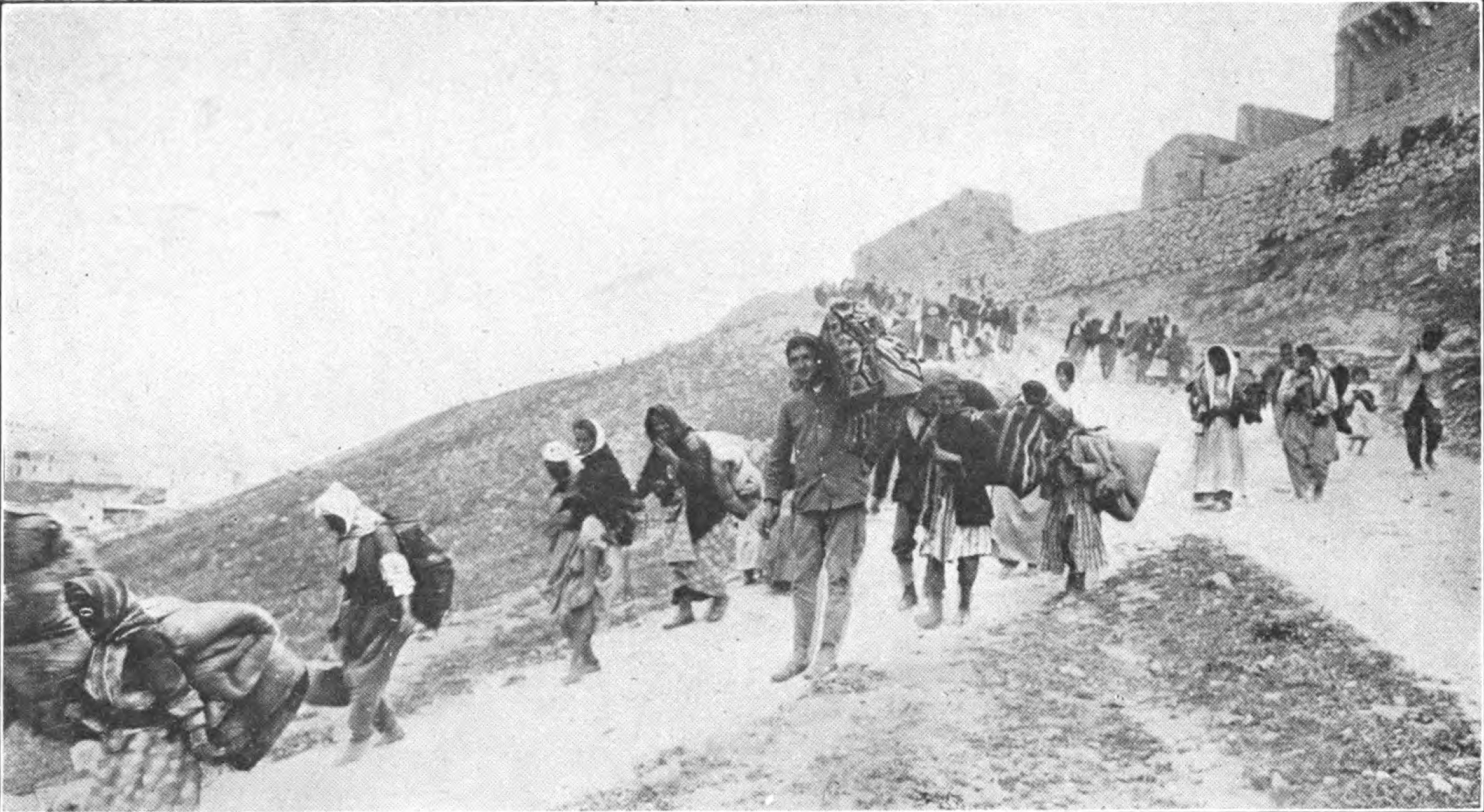 Deportations of Armenians. The man in the foreground is a gendarme